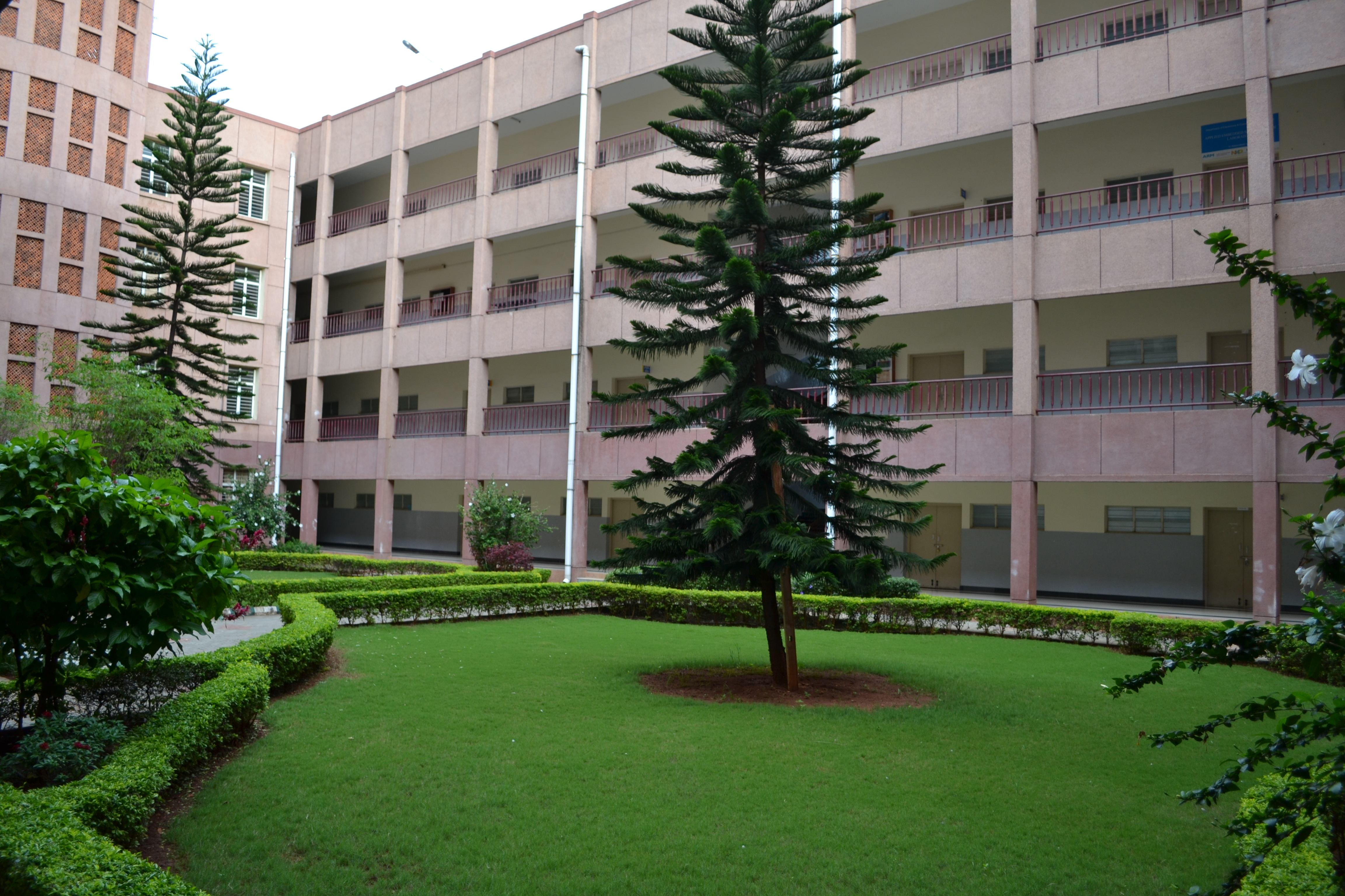 JSSATE Campus - Inside the Main Block